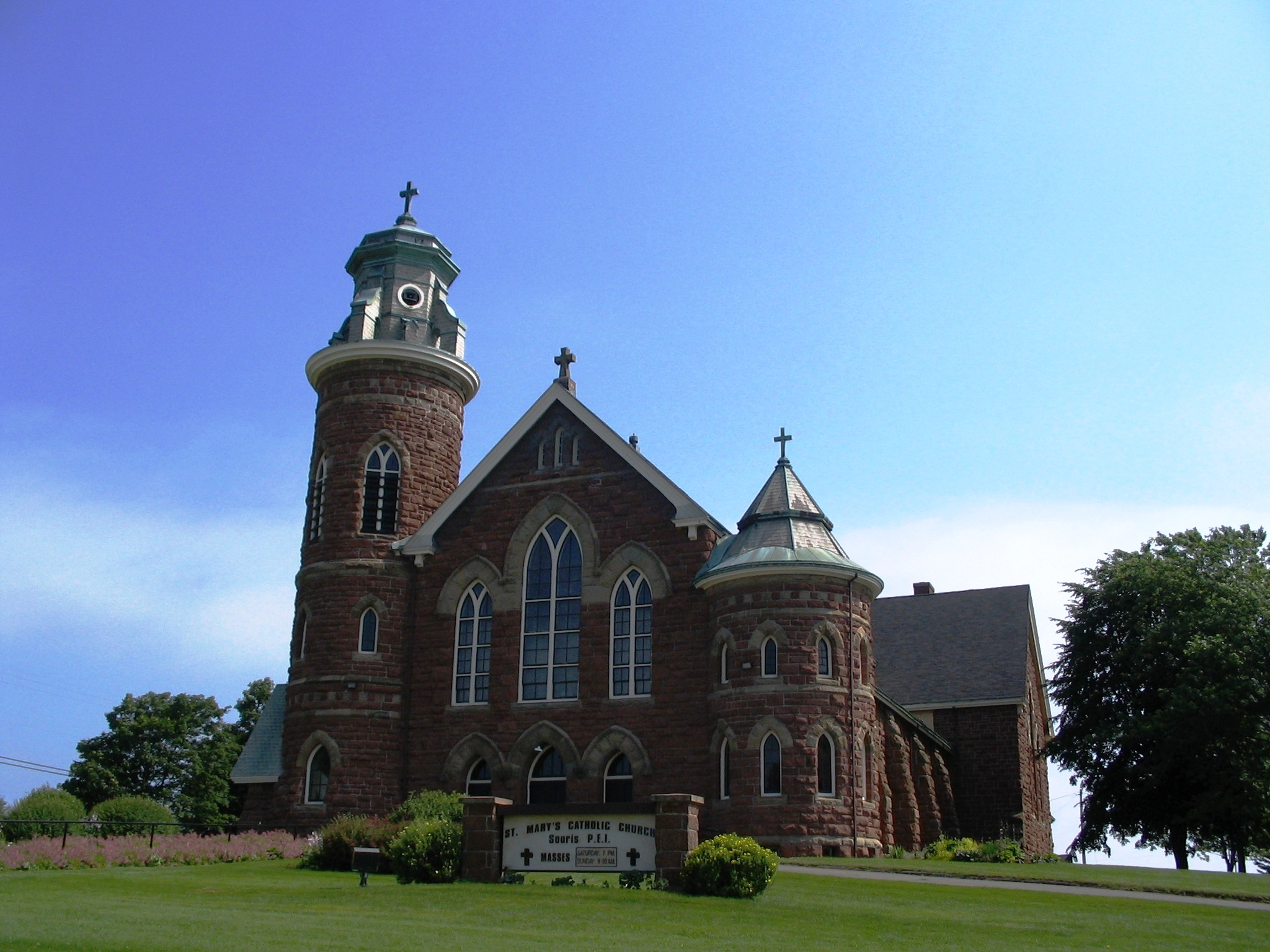 St Marys church, Souris, Prince Edward Island, Canada.